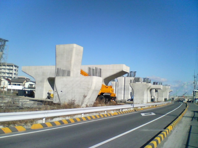 Tokushima Loop Road (徳島環状道路) under construction